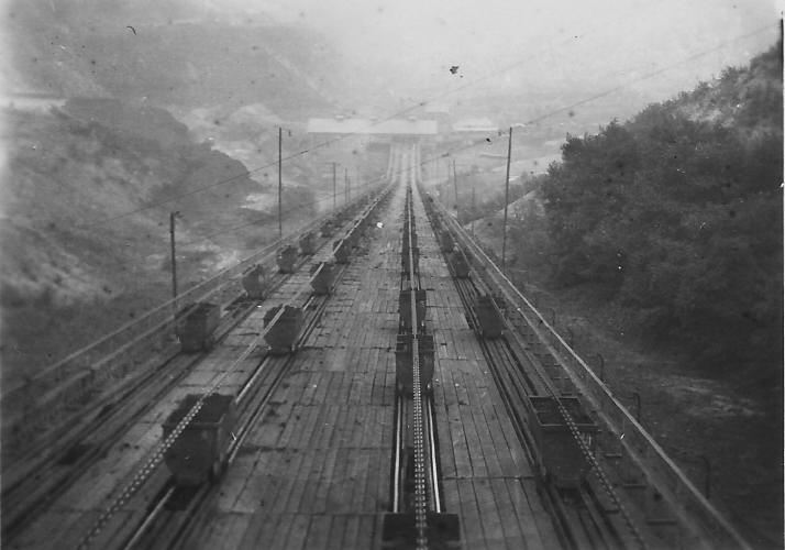 Chain-driven rail transport at the Fortuna lignite mine near Bergheim, Germany